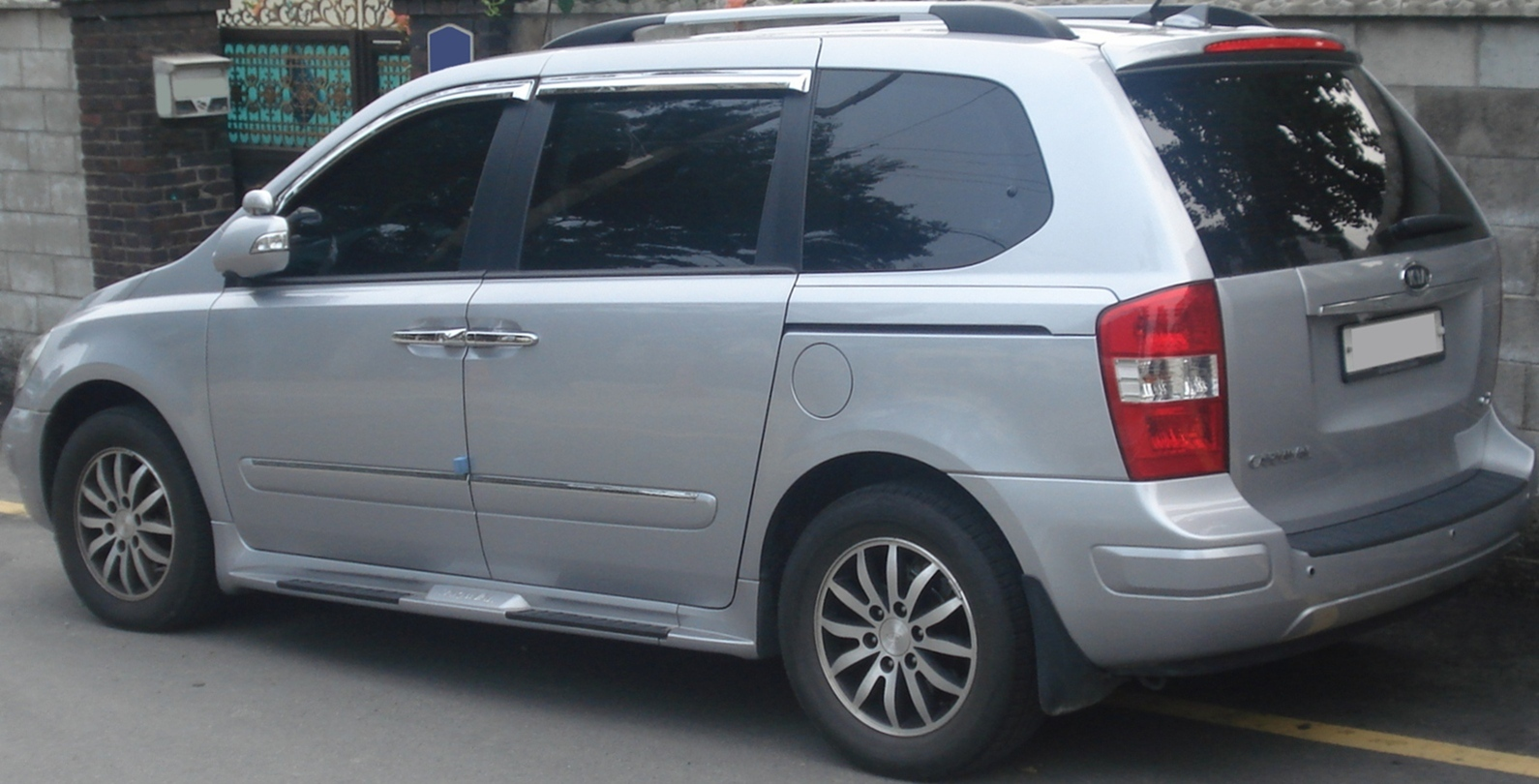 Kia New Carnival